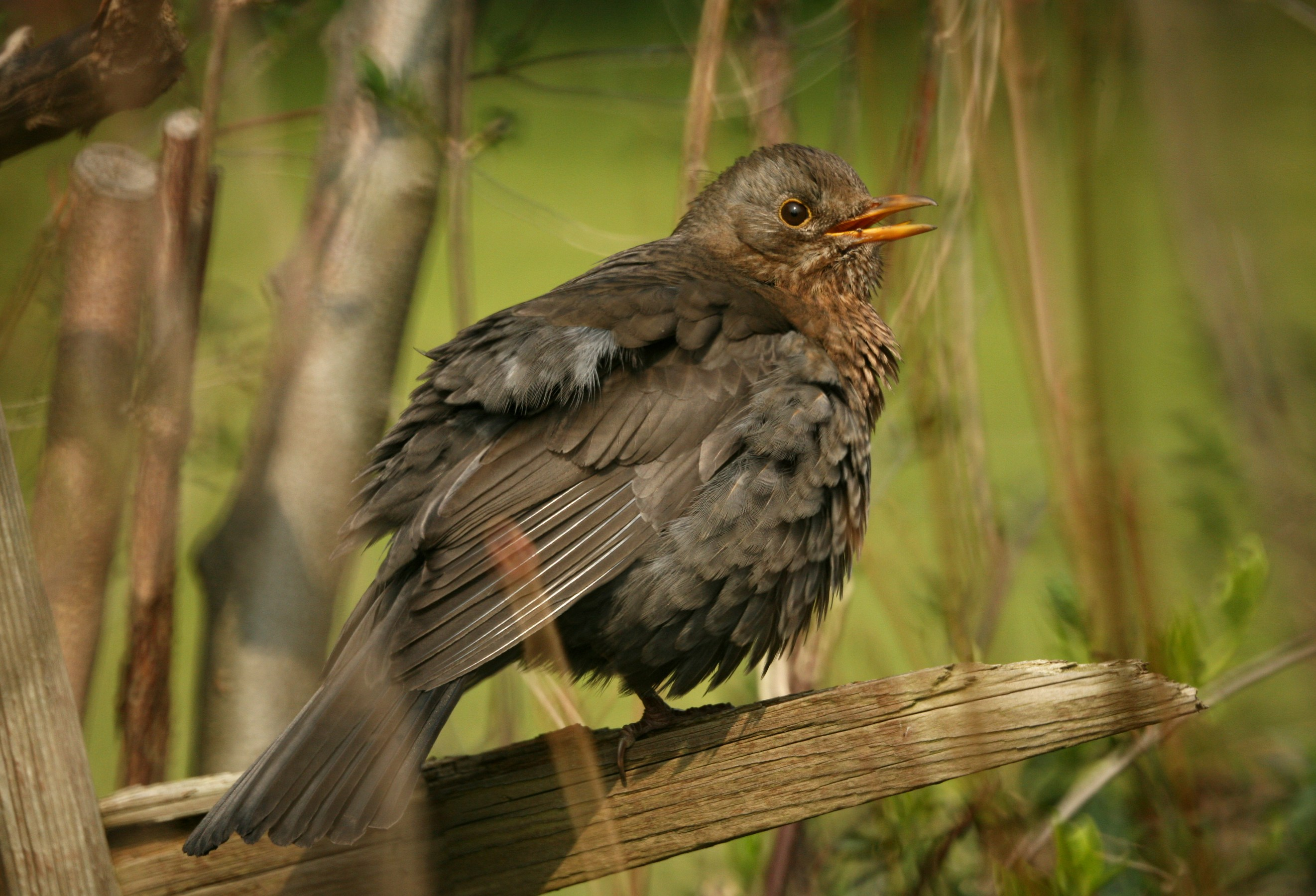 Blackbird female